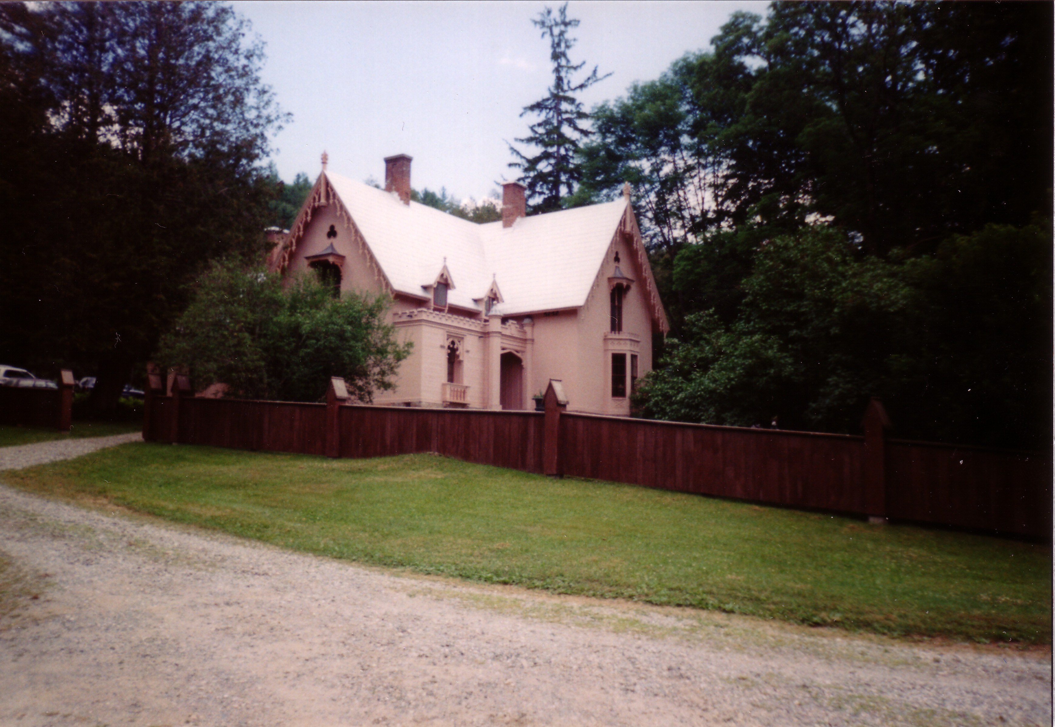 Justin Smith Morrill House, Strafford, Vermont